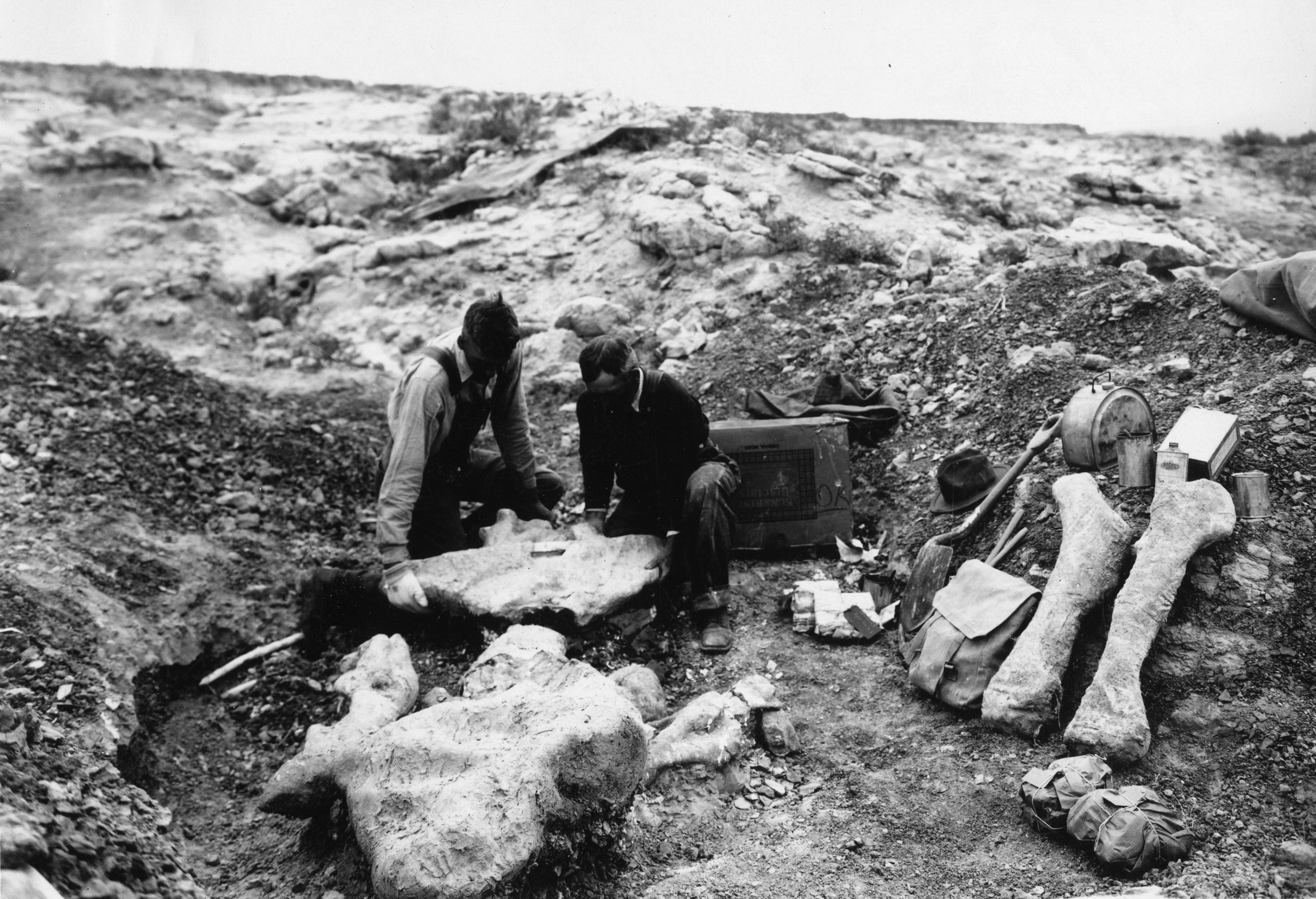 1931. Image of two expedition members lifting a piece of a Titanotherium fossil. The men are surrounded by other fossils and excavation equipment. The caption on the back of the image reads, "Sp. 22-27 Titanotherium. Removing the pelvic arch from the rest of the skeleton after it has been plastered on top." Scientific field research headed by Charles W. Gilmore, curator of vertebrate paleontology for the U.S. National Museum (USNM), now known as the National Museum of Natural History, was conducted in 1931 and 1932. The expedition covered the Miocene and Oligocene formations of southwestern Montana and the Bighorn Basin in Wyoming. Expedition members sent back fossils to the USNM for research and display.